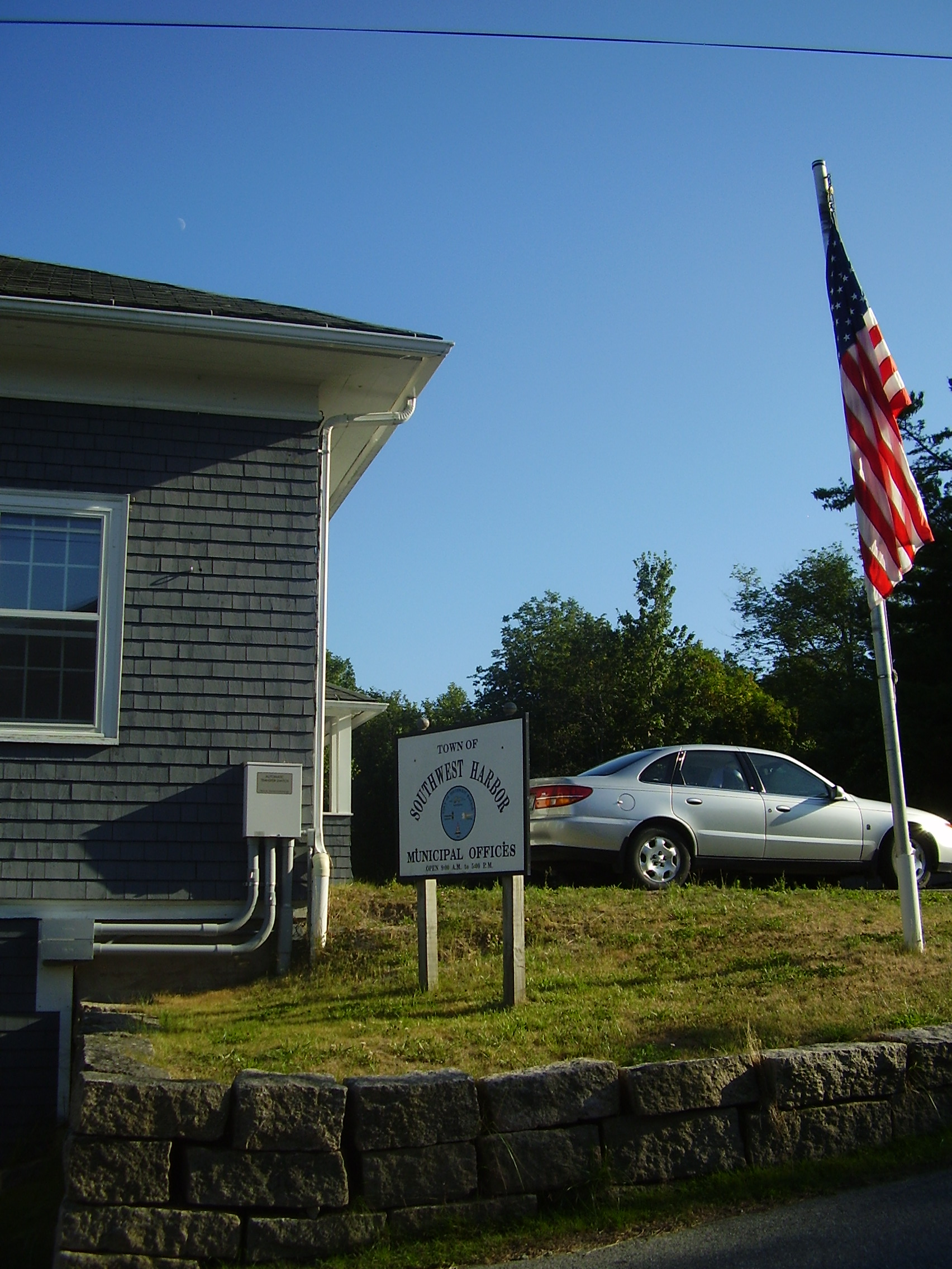 Southwest Harbor Municipal Offices